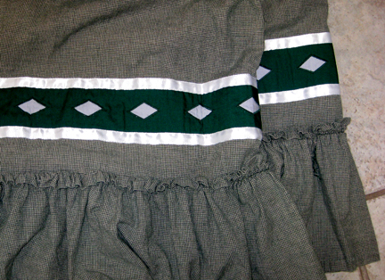 ribbon work appliqué in a diamond rattlesnake design on a stompdance skirt made by Ardina Moore (Quapaw-Osage) of Miami, Oklahoma